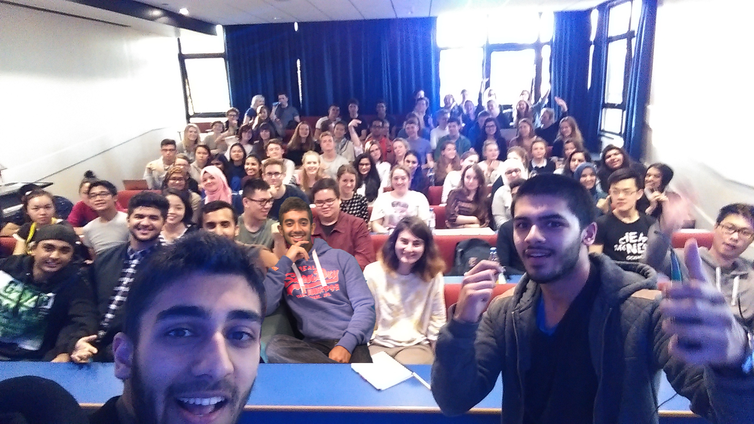 A revision lecture held by GUMSA held in 2015 for Medical Students